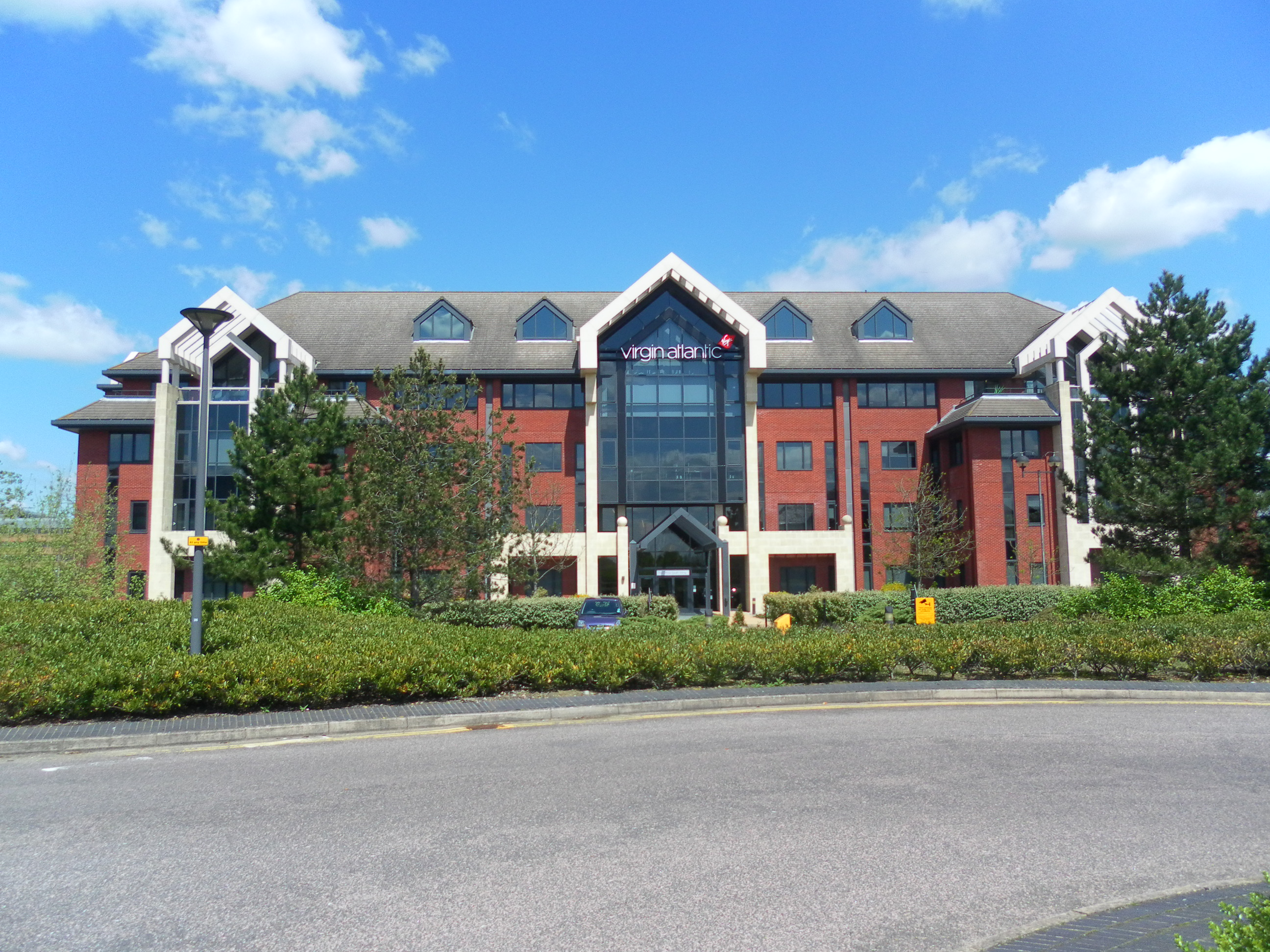 Headquarters of Virgin Atlantic, Manor Royal, Crawley, West Sussex, England.